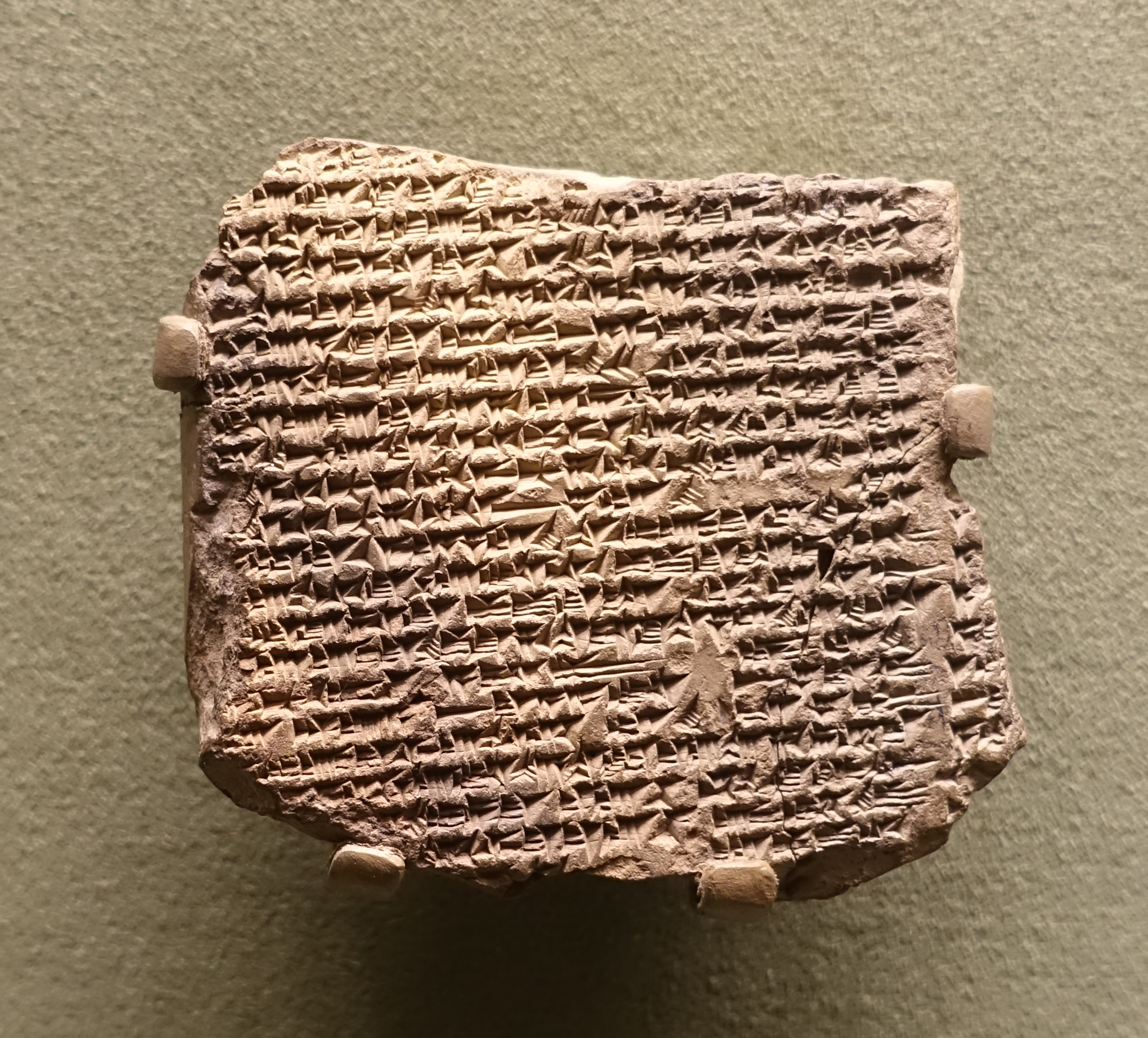 Fragment A (MLC 1296) of the Myth of Adapa discovered in the Library of Assurbanipal. 7th century BC (Neo-Assyrian era). Morgan Library & Museum - New York City, New York, United States.